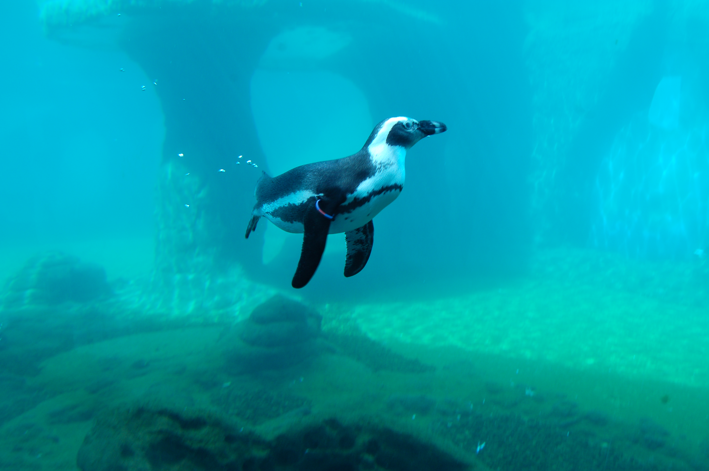 Penguin